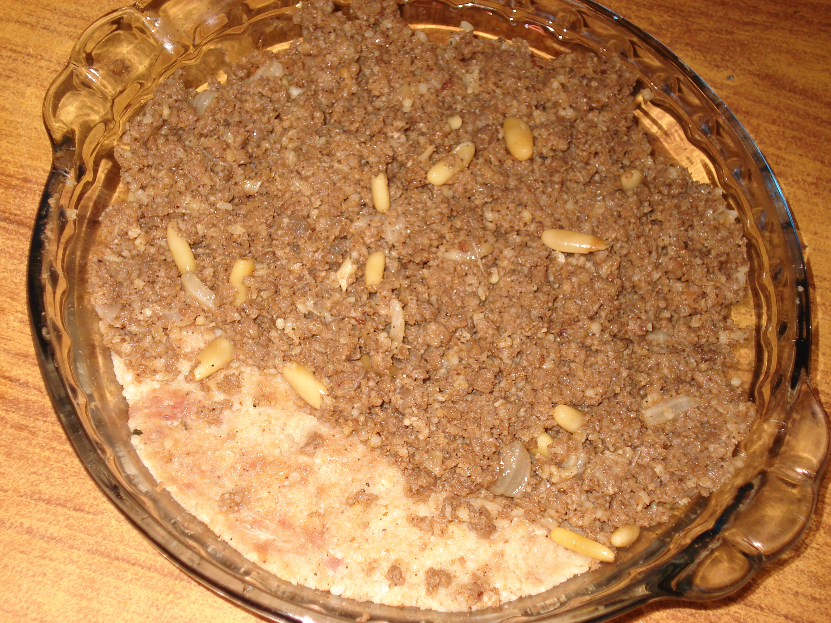 Kibbe bi sanneyah , it is prepared in oven, alternate layers of burgal and minced lamb prepared with spices is arranged in a baking bowl/tray and then backed